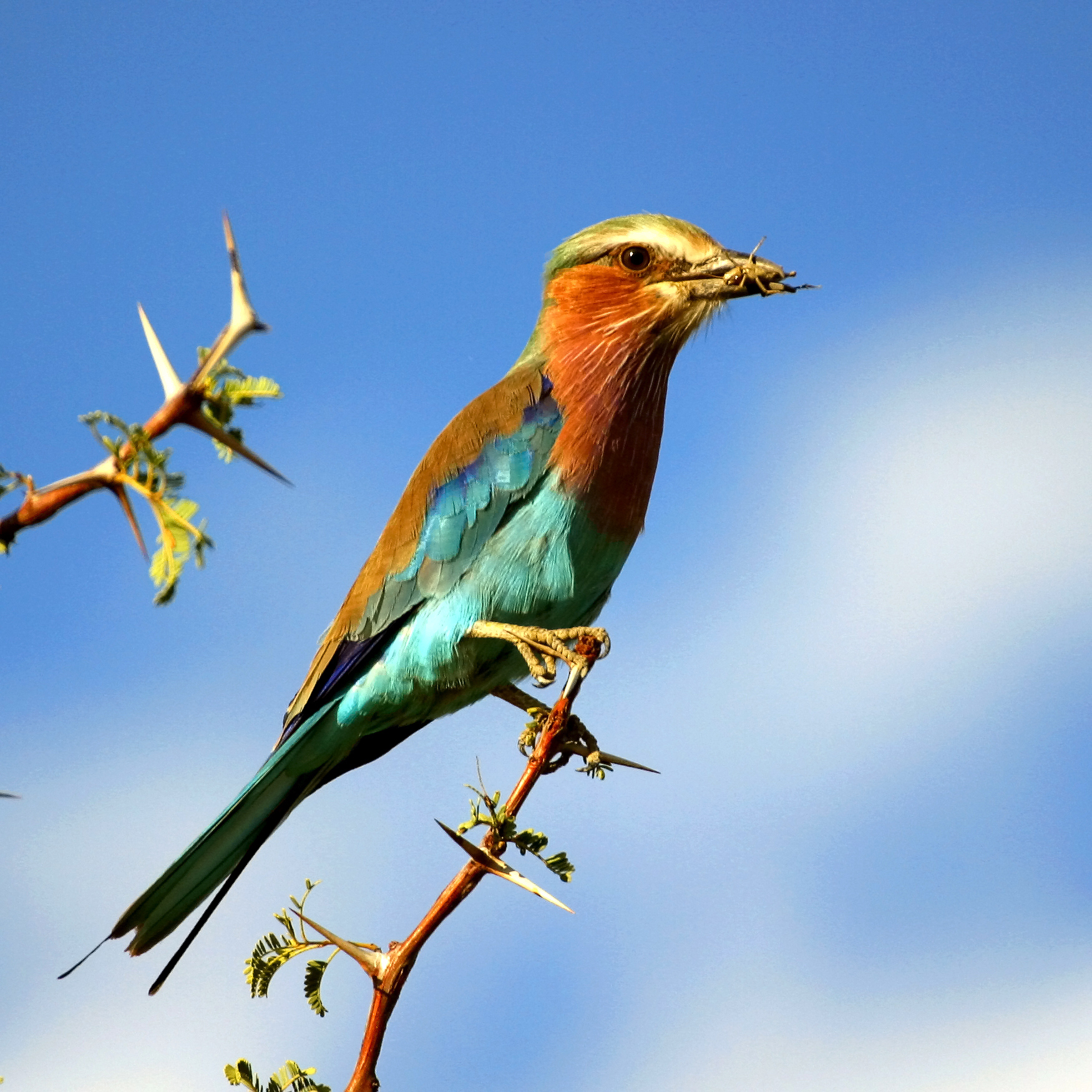 Lilac-breasted Roller (Coracias caudata), with grasshopper meal, on Acacia tree, in Botswana Africa.